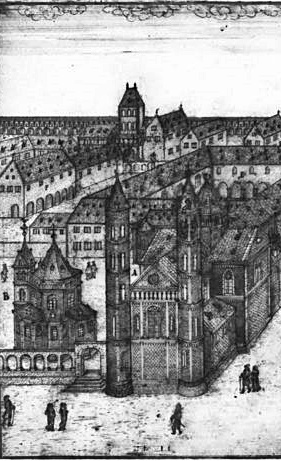 Peter Hamman, Worms, Dom und Johanneskirche von Osten, vor 1689